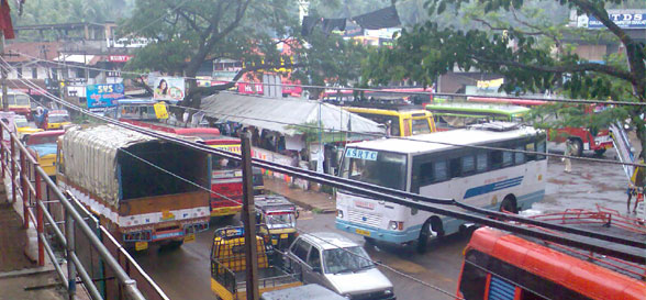 Omassery Bus stand Traffic view